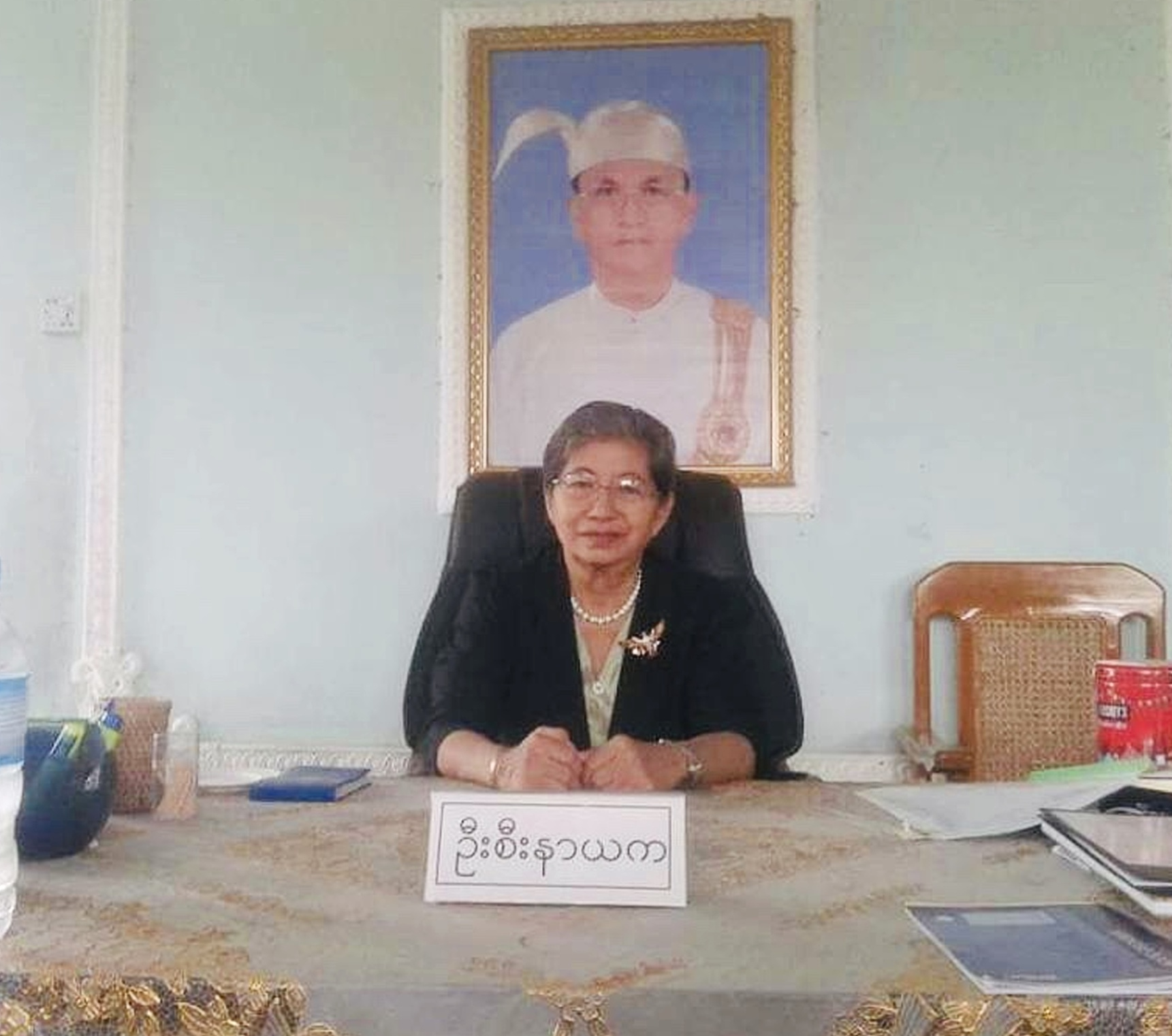 My mother at office since 2014